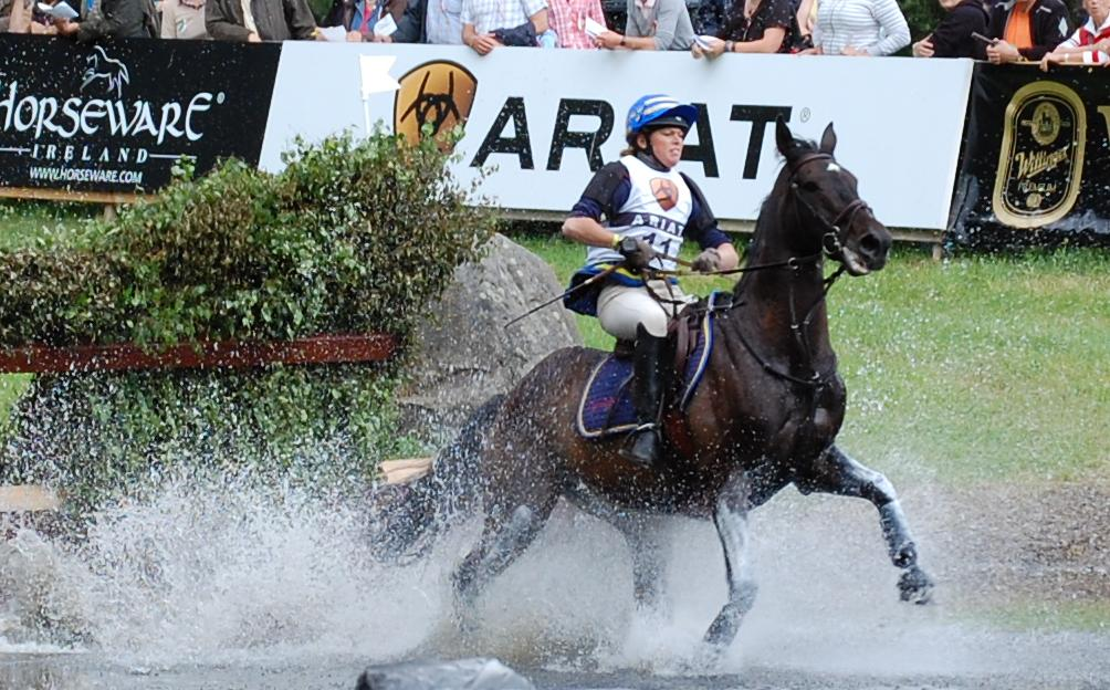 Swedish eventing rider Katrin Norling with Pandora Emm, Milford water (now "Meßmer water"), CIC 3* at the 2011 Luhmühlen Horse Trails